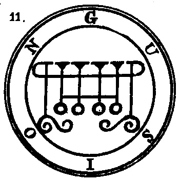 The seal of Gusion